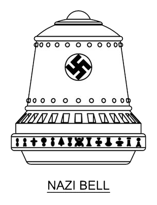 This illustrates purported top secret Nazi scientific technological device knows as "the Bell" (Die Glocke). For illustration variety of sources and described features are combined.